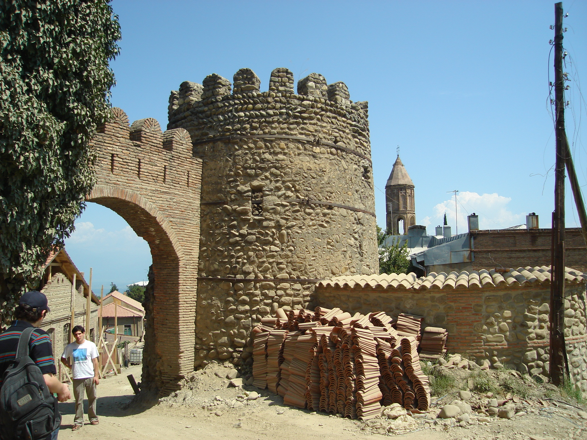 Sighnaghi, Georgia